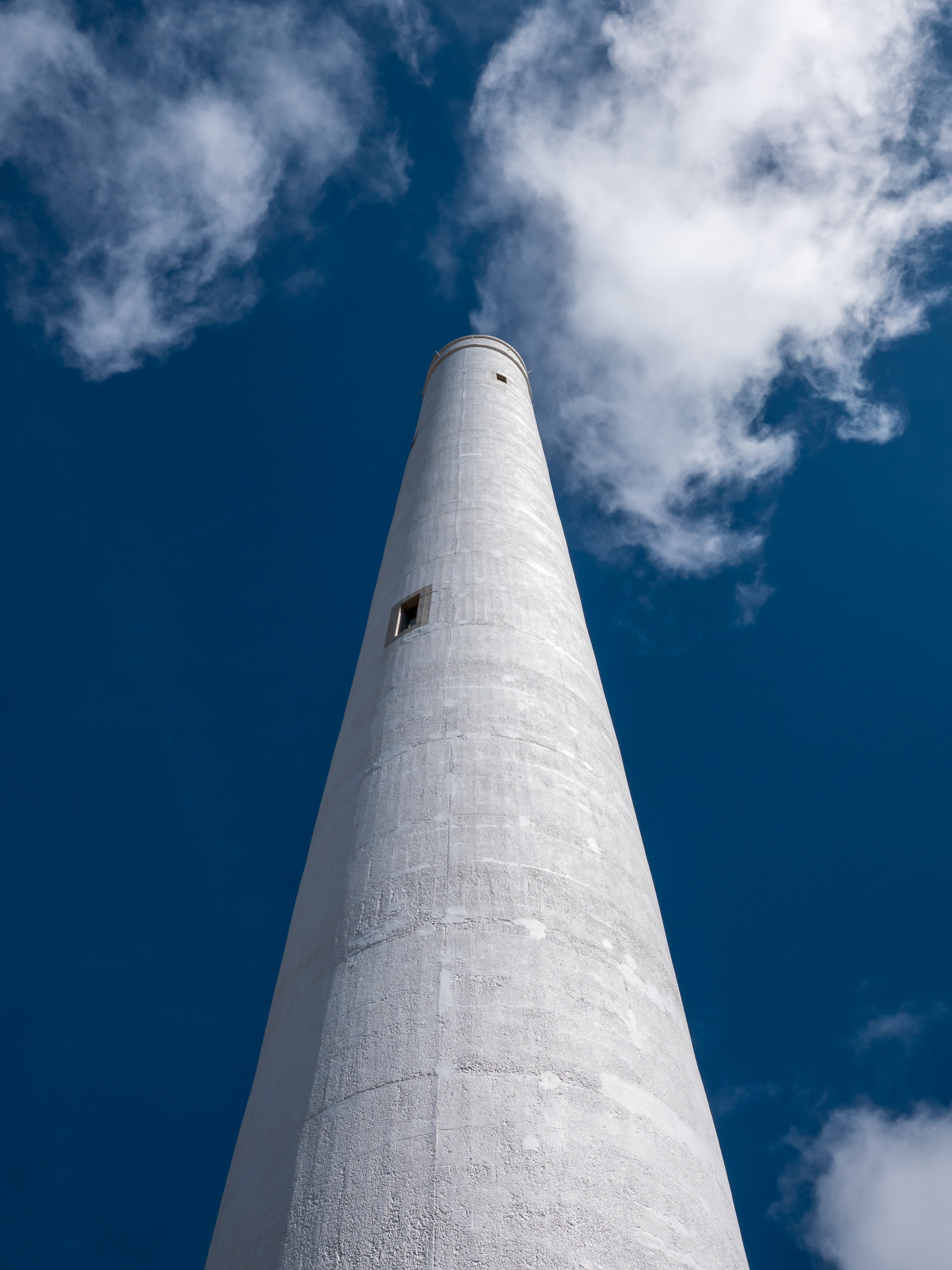 Torre do Faro at the Virgen del Faro ("Virgin of the Lighthouse") Chapel, lighthouse monument. Brantuas, Ponteceso, La Coruña, Galicia, Spain